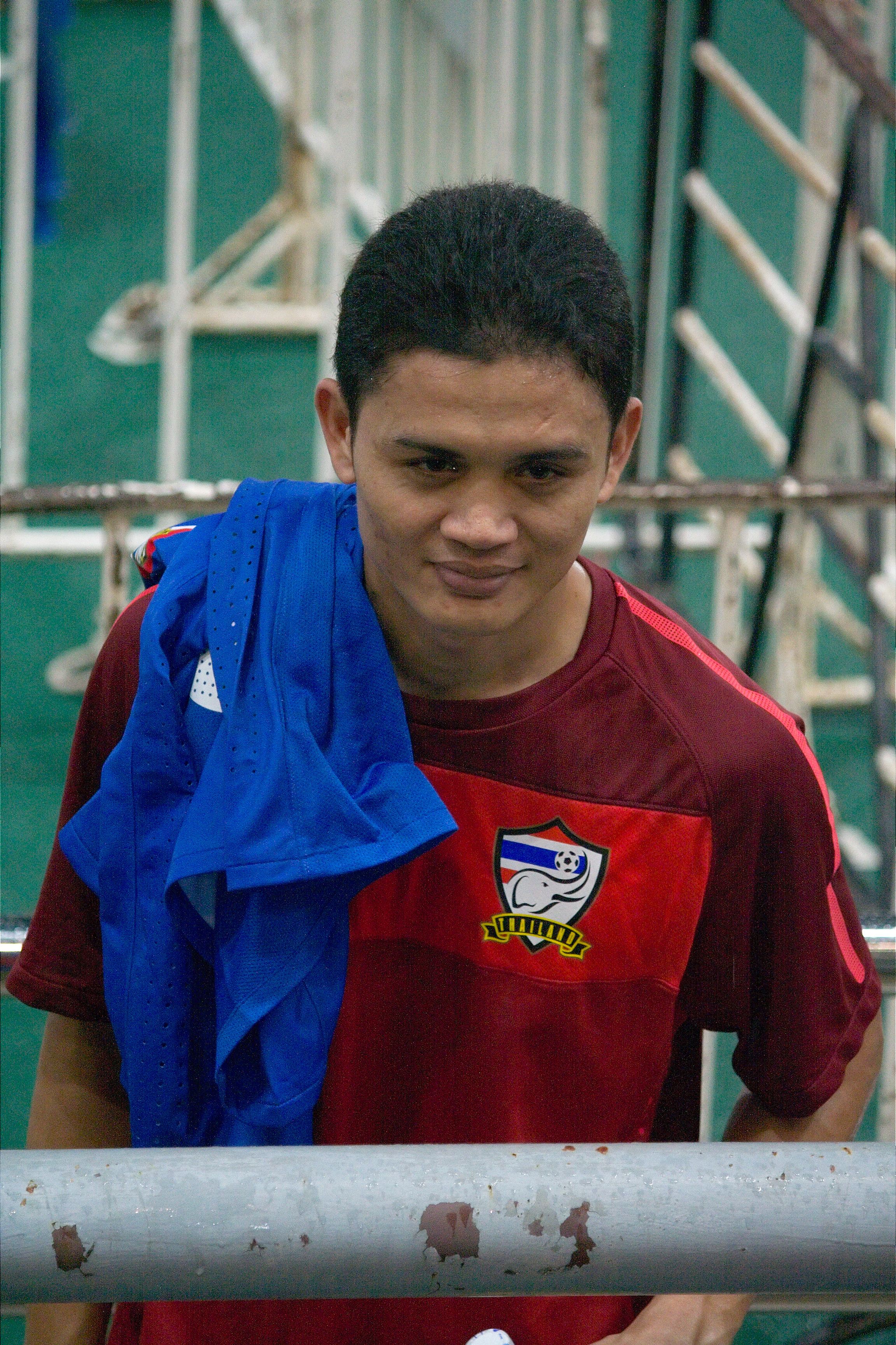 Sarayuth Chaikamdee after Thailand's World Cup 2014 third round qualifying match against Oman at Rajamangala Stadium